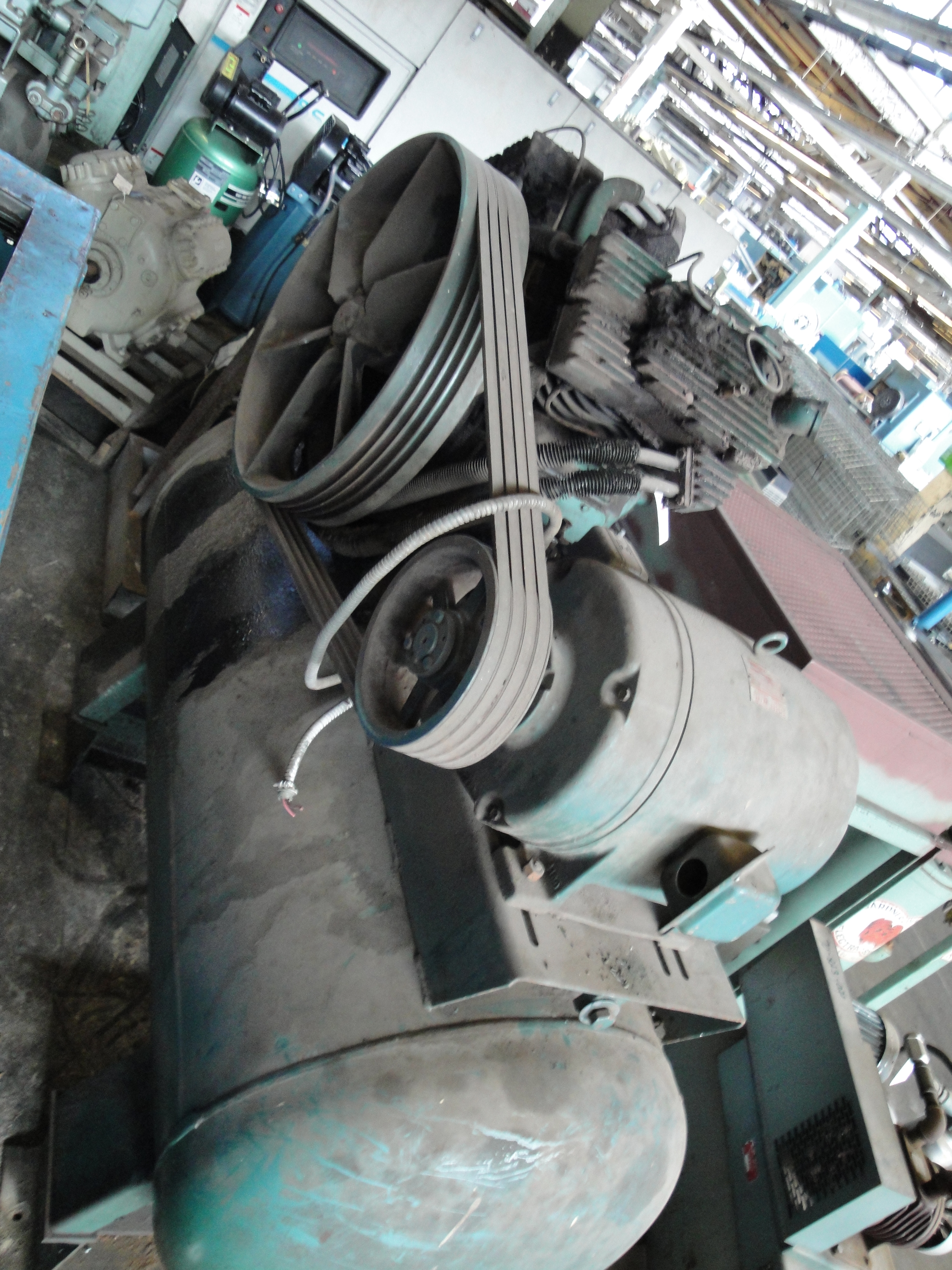 A multiple-V-belt drive, sometimes called a classical V-belt drive.